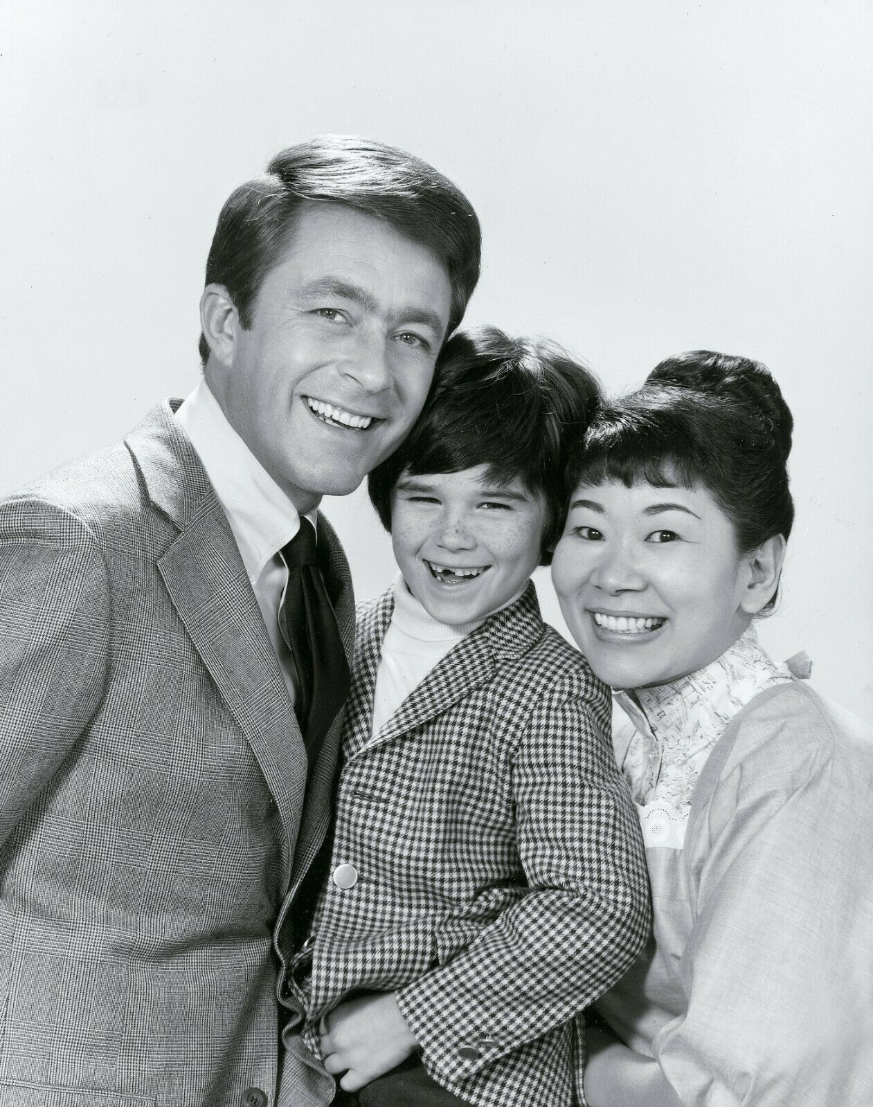 Publicity photo from the television program The Courtship of Eddie's Father. From left: Bill Bixby, Brandon Cruz and Miyoshi Umeki